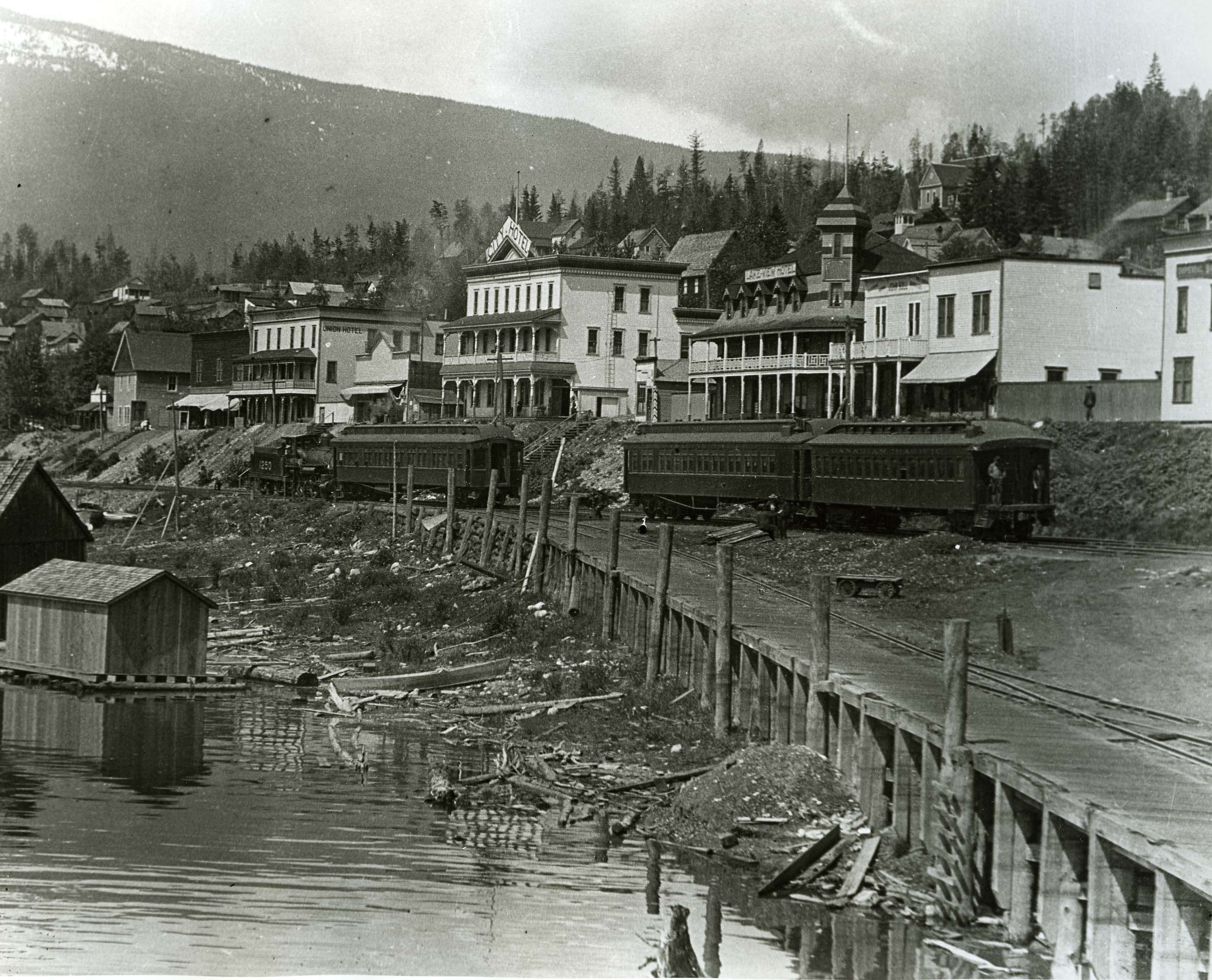 The town of Arrowhead, British Columbia, facing northwest. Many of the commercial buildings were rebuilt after a fire in 1906. Arrowhead was abandoned in 1964 due to the construction of the Hugh Keenleyside Dam, which flooded surrounding areas.